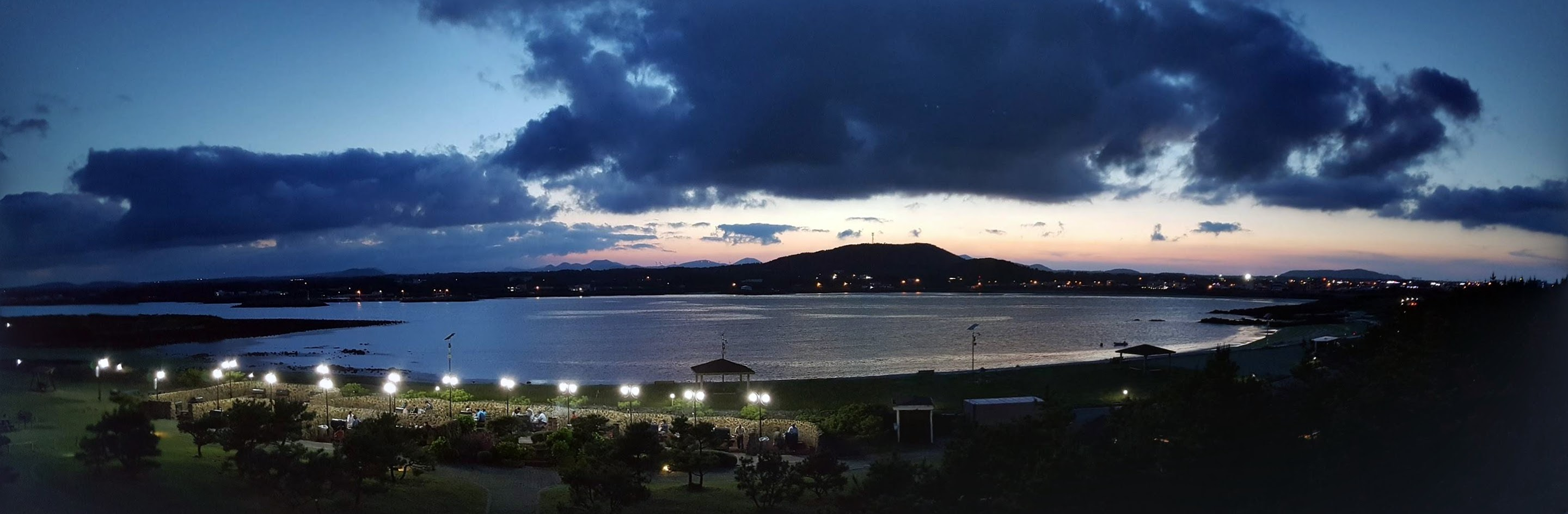 Panorama of Seobjikoji, Jeju Island in Phoenix Island resort toward Hala Mountain across the bay